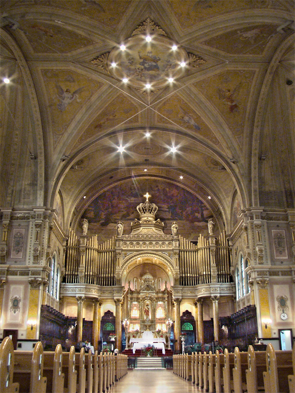 Church of Très-Saint-Nom-de-Jésus, Montreal, Quebec, Canada. A Casavant organ overhangs the main altar. By lack of funds, this beautiful church closed permanently in June 2009, unfortunately...